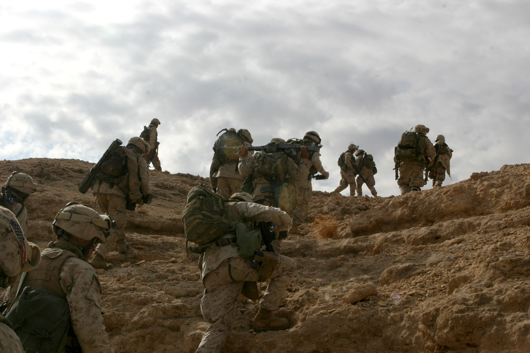 Marines from Bravo Co., Battalion Landing Team, 1st Battalion, 2nd Marines, climb a rocky outcrop between towns in search of weapons caches along the Euphrates River during Operation Koa Canyon Jan. 18, 2006. The 22nd MEU (SOC) is conducting counterinsurgency operations in Al Anbar province alongside an Iraqi infantry battalion, collectively under the tactical control of the 2nd Marine Division.